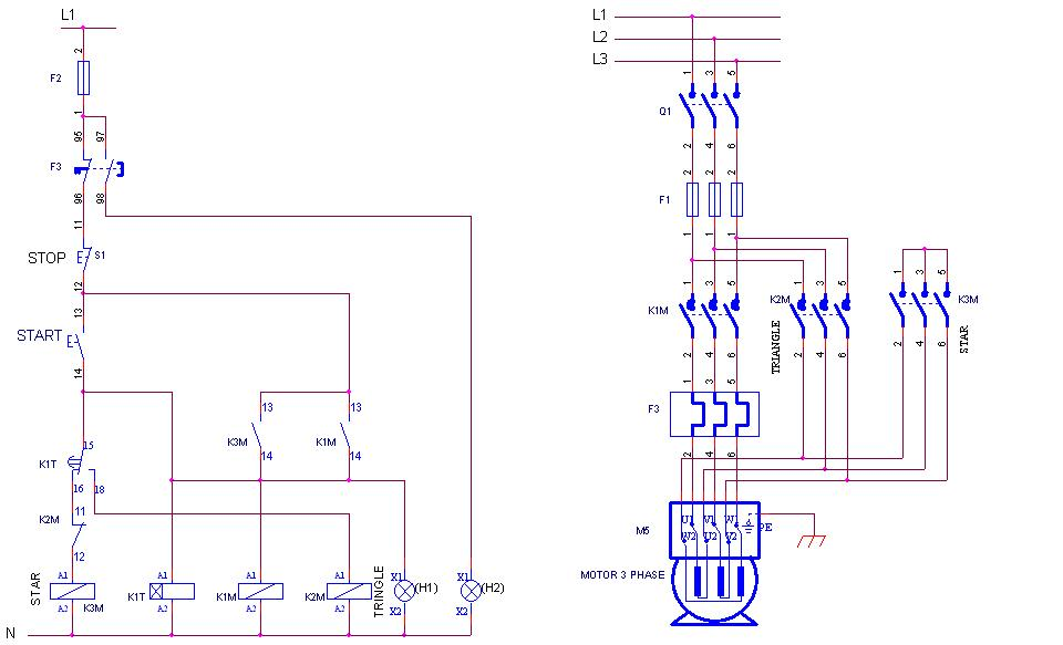 Wye-Delta transform